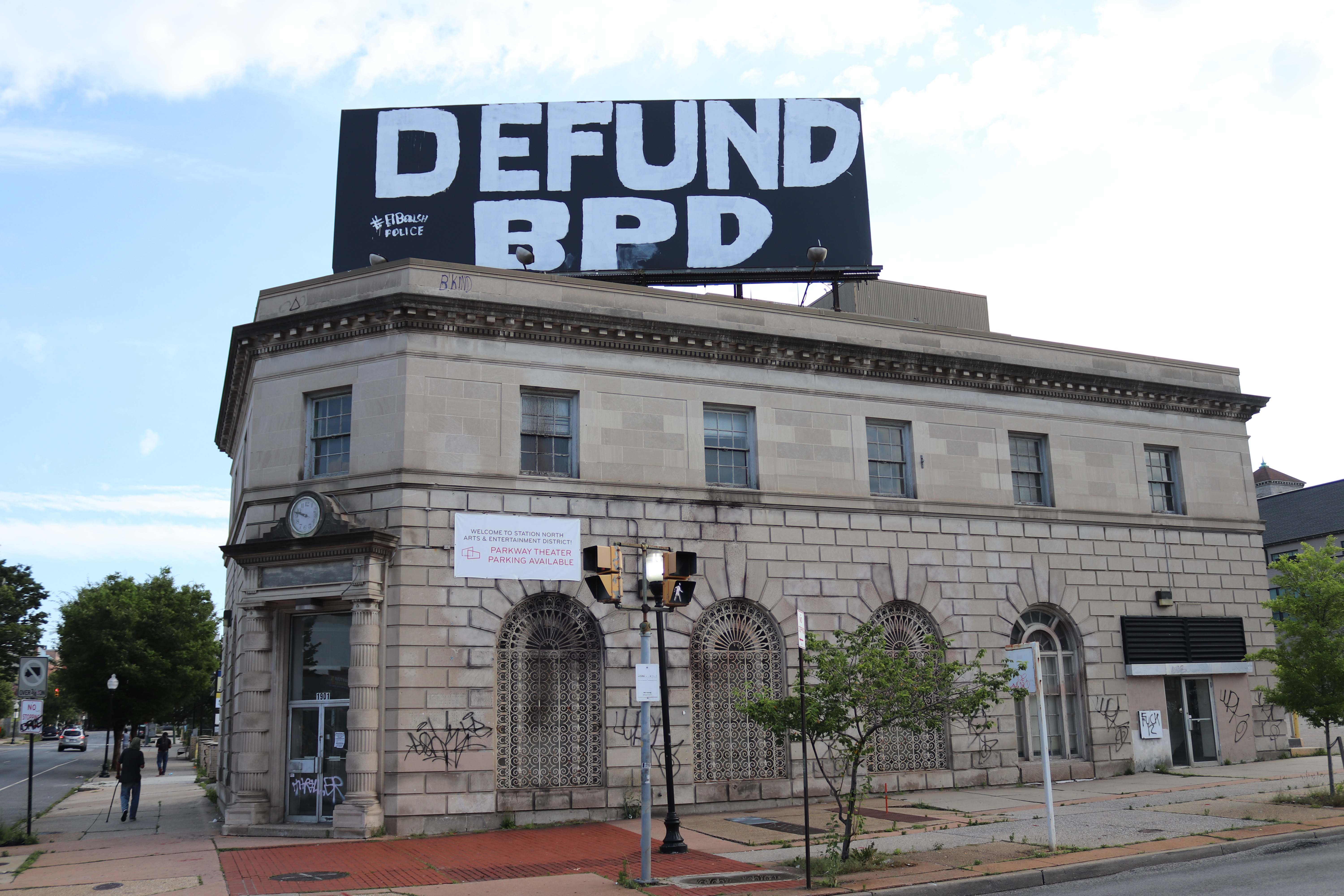 Organizing Black DEFUND BPD ABOLISH POLICE art billboard at 1901 North Charles Street in Baltimore MD on Wednesday morning, 1 July 2020 by Elvert Barnes Photography Follow ORGANIZING BLACK at WRITINGS ON THE WALLS / BLACK LIVES MATTER GRAFFITI Series Elvert Barnes BLACK LIVES MATTER 2020 docu-project at Elvert Barnes PUBLIC ART 2020 at Elvert Barnes 2020 BALTIMORE CITY docu-project at Coronavirus COVID-19 Project / Baltimore City Series Elvert Barnes COVID-19 Pandemic docu-project at Trip to Safeway @ Charles Village